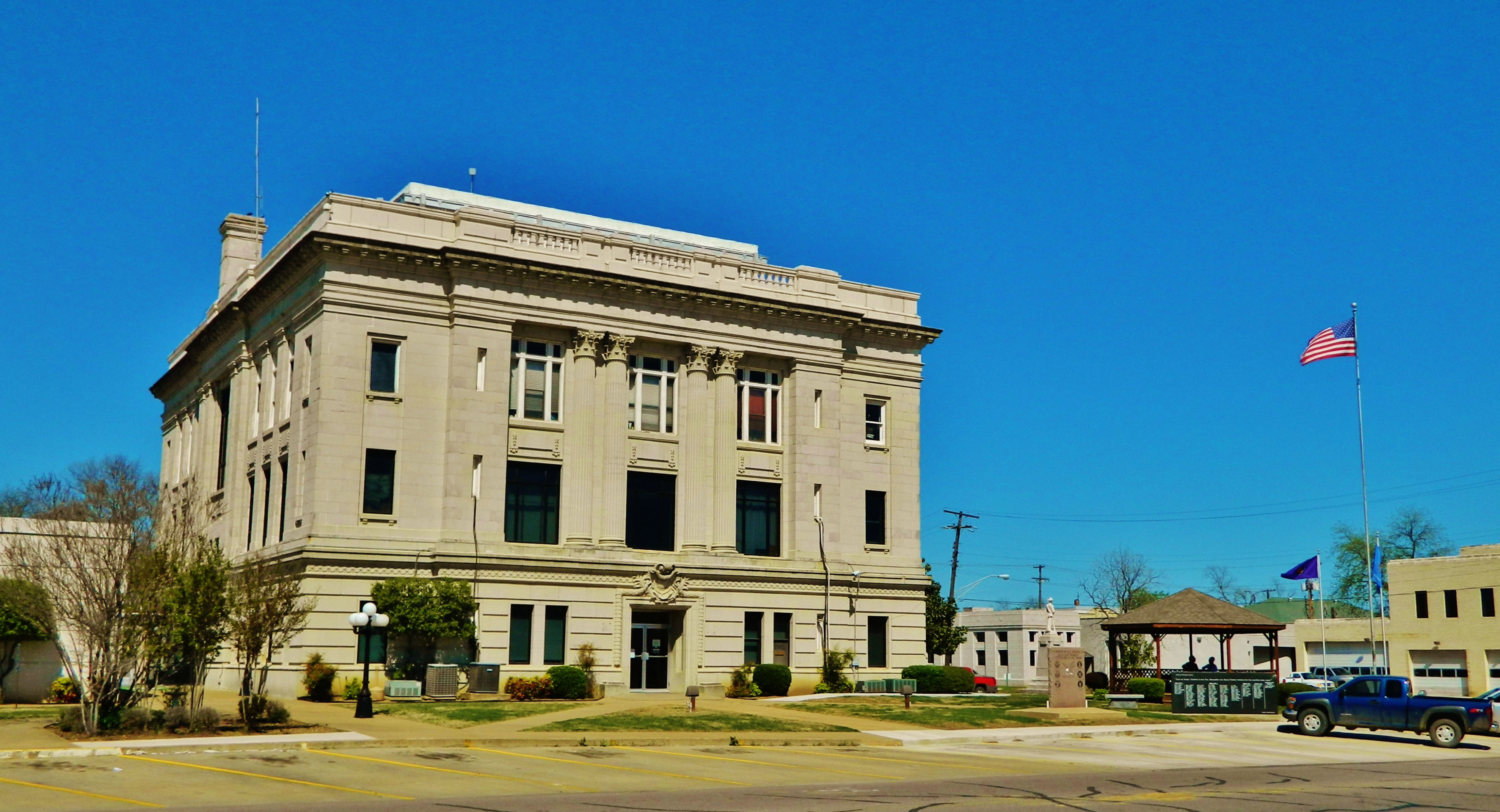 Bryan County Courthouse in downtown Durant.